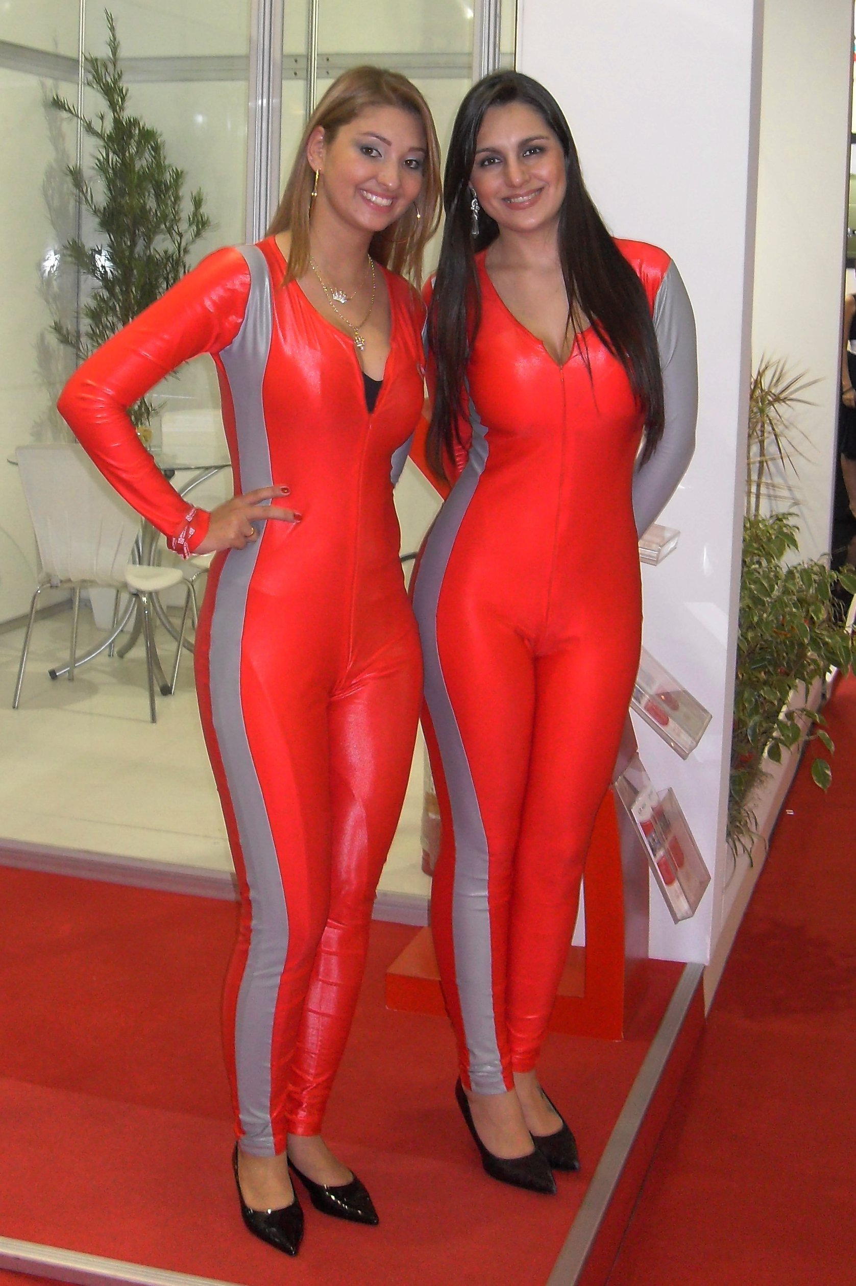 promotional models at the Fenasucro fair 2010 in Sertaozinho, Brazil